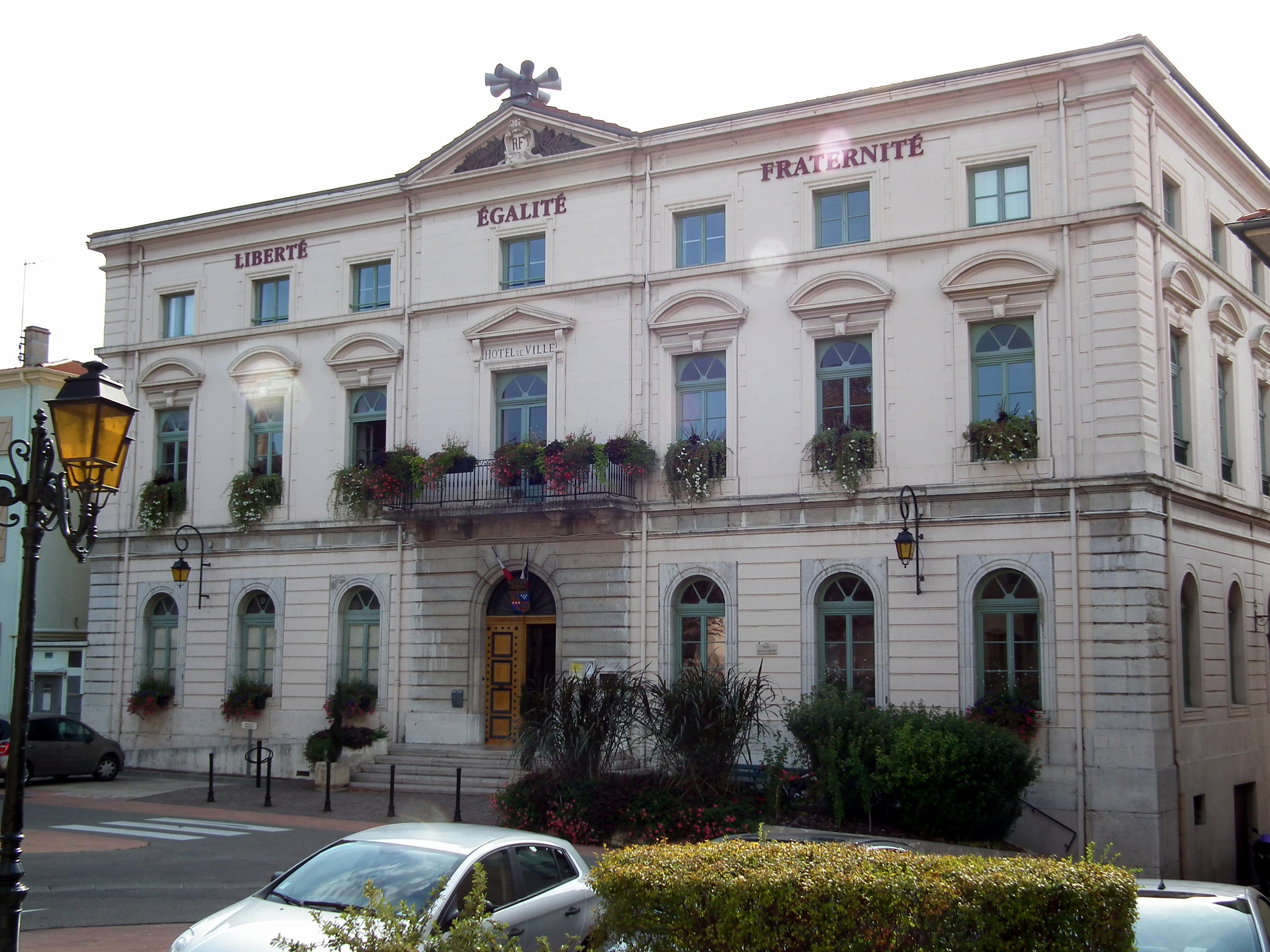 Town hall of Saint-Vallier - Drôme - France